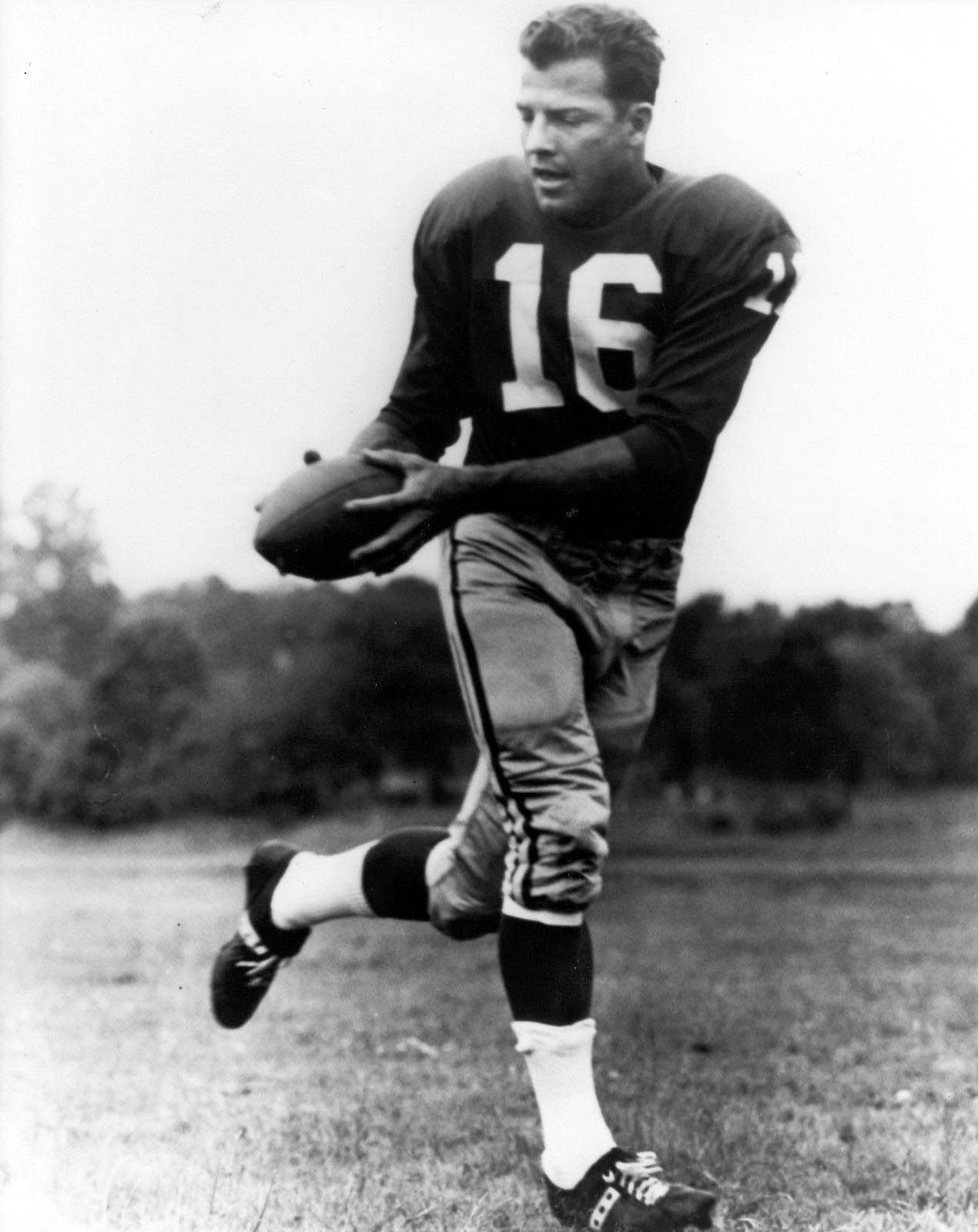 Frank Gifford, an american football player for the NY Giants.